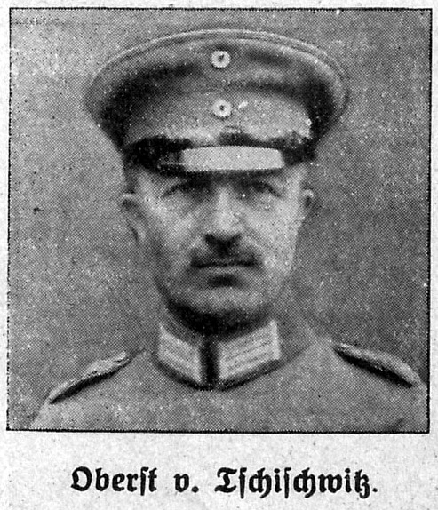 German Lieutenant Colonel Erich von Tschischwitz (WW1)